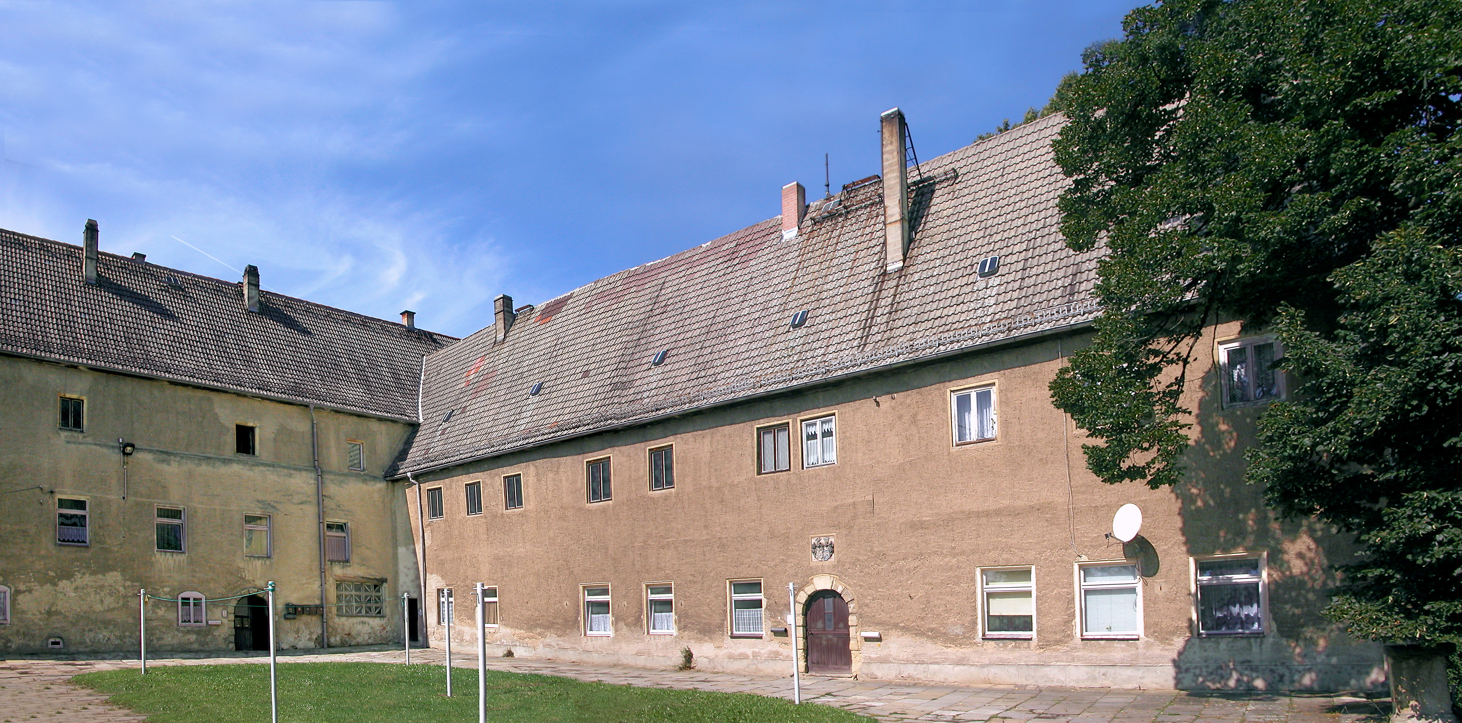 17.08.2008 01665 Miltitz (Klipphausen): Am Rittergut. Herrenhaus, links der Südwestflügel, rechts der Nordwestflügel. [DSCN33780-33781.TIF]20080817120MDR.JPG(c)Blobelt